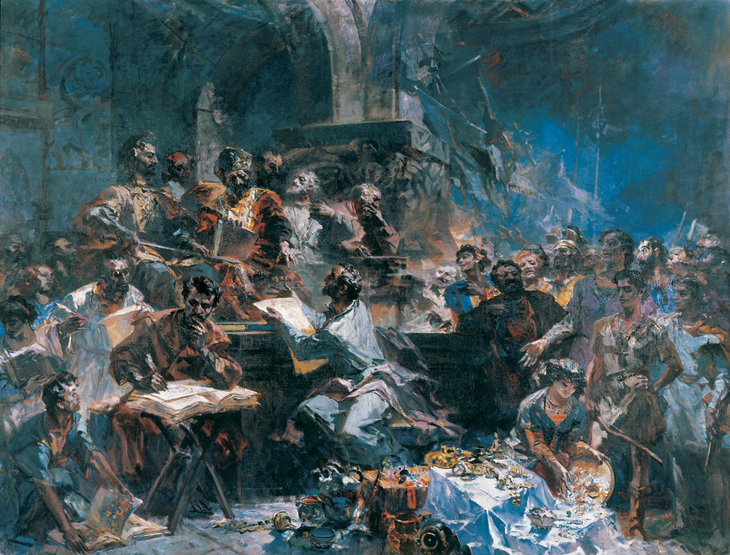 Reply to Hazkert. 1960, Oil on Canvas, 350×450